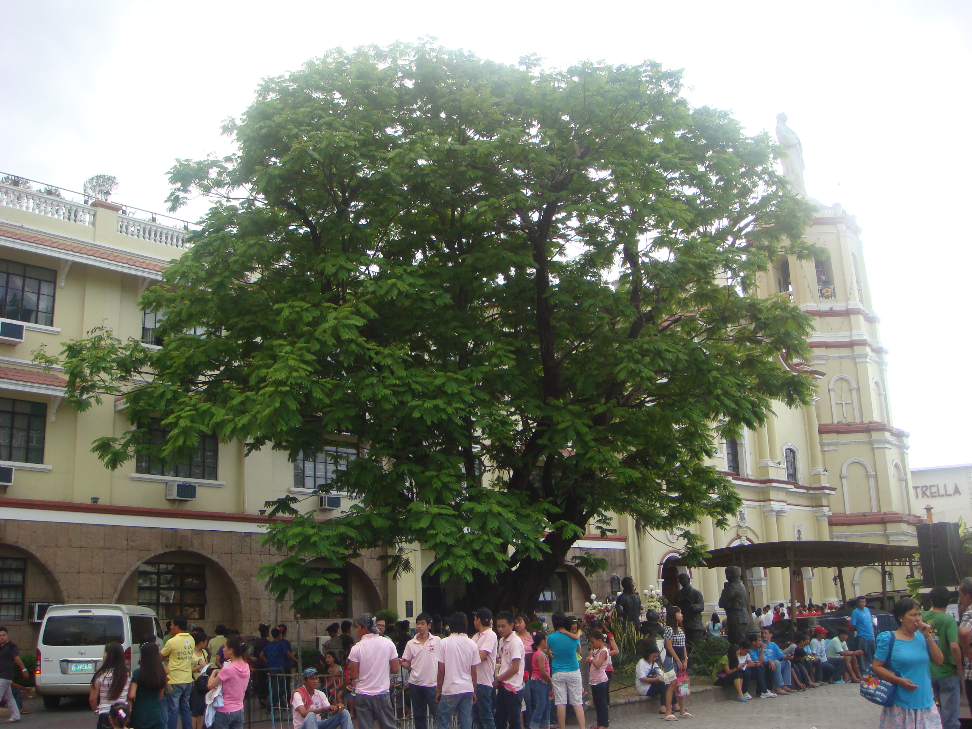 The Kalayaan Tree (Tree of Freedom. siar tree - peltophorum pterocarpum) located near the front of the Minor Basilica of Our Lady of Immaculate Conception in the historic city of Malolos, Bulacan, Philippines. The siar tree was planted by Gen. Emilio Aguinaldo during a lull in the Malolos Convention. Under the tree is a monument symbolizing the meeting of Filipino revolutionaries represented by statues of Gregorio del Pilar and Gen. Isidoro Torres; Don Pablo Tecson, a legislator; Padre Mariano Sevilla, a nationalist leader of the church and Doña Basilia Tantoco, a woman freedom fighter.[1]